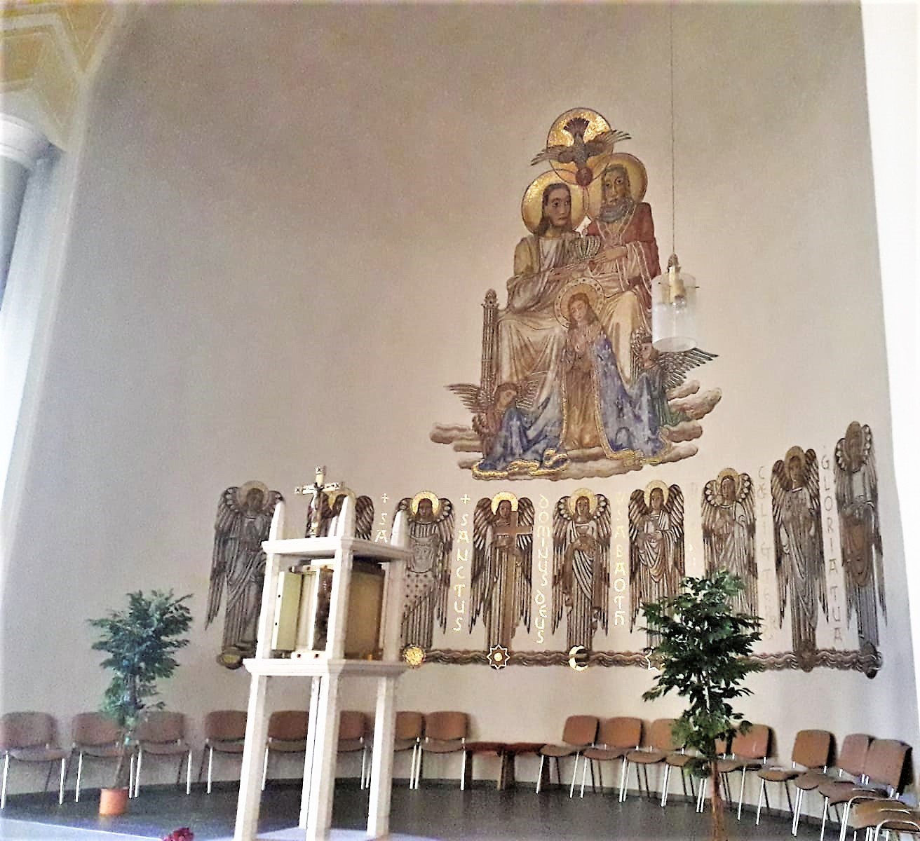 roman catholic St.-Mary's church in Saarbrücken, Saarland, Germany